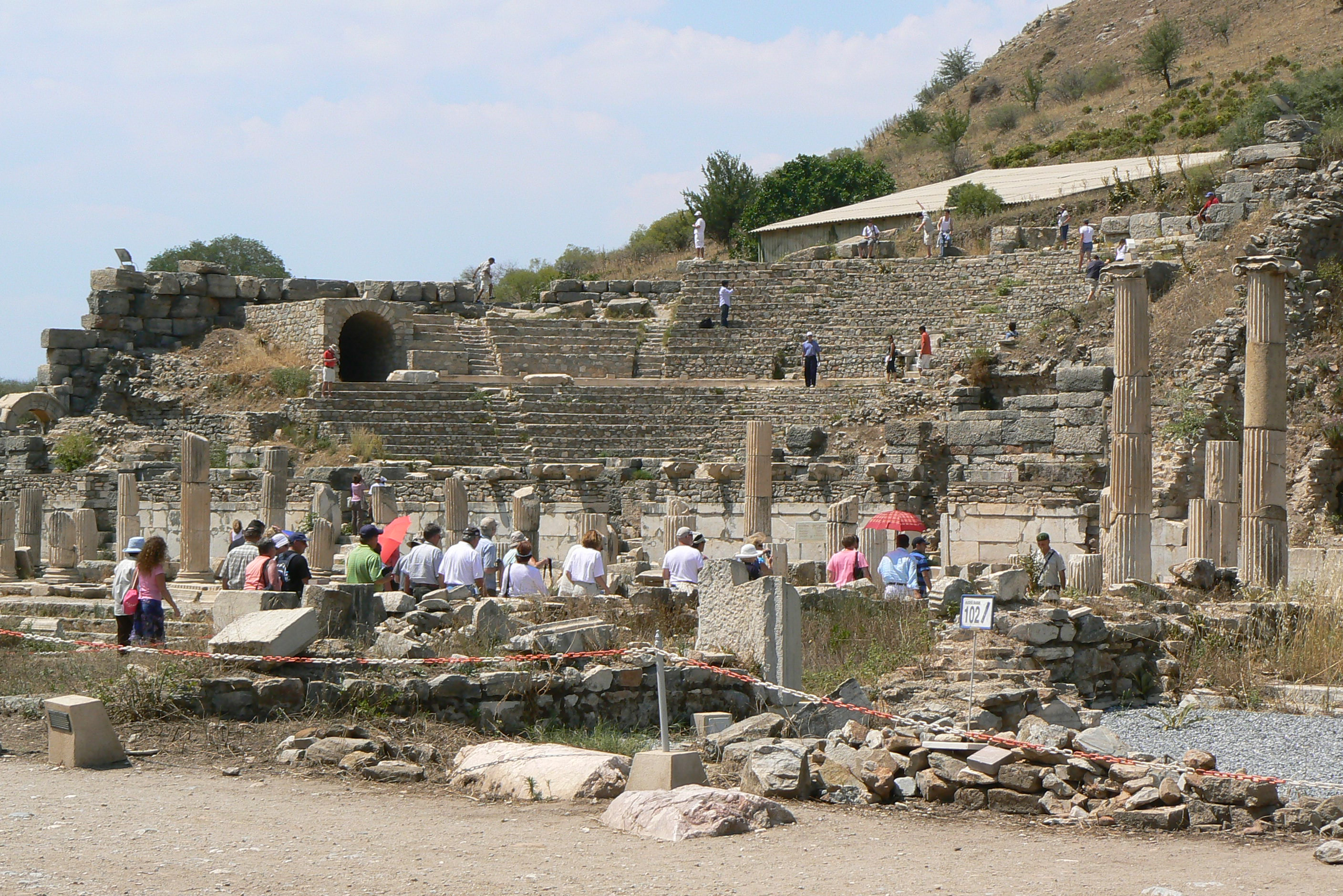 Ephesus, Odeon